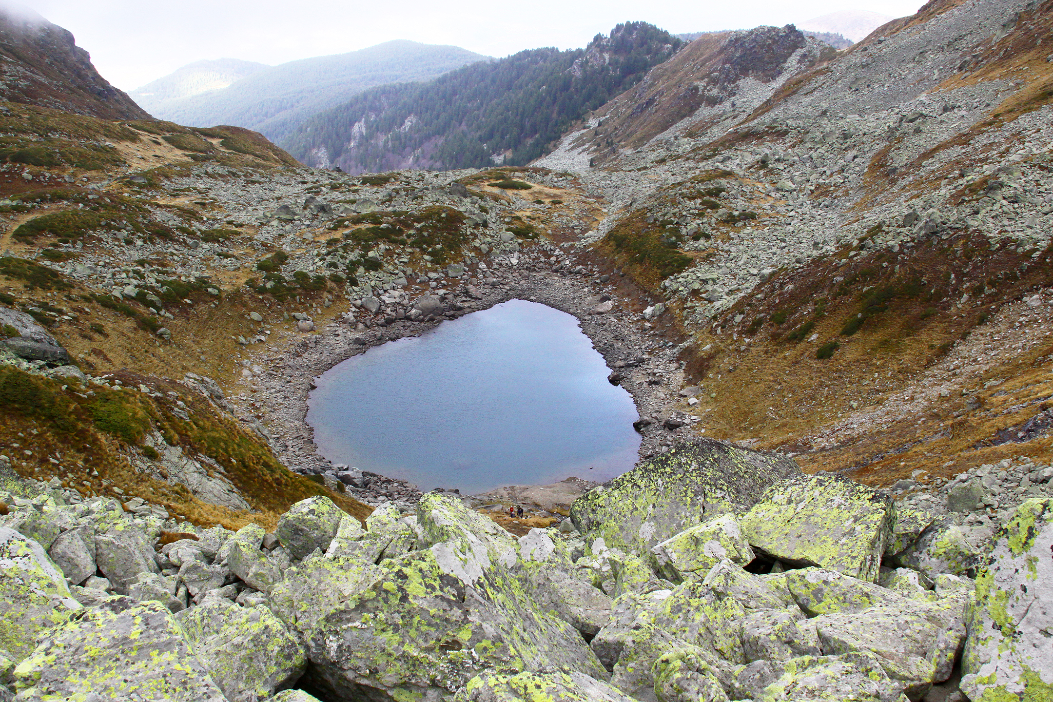 Jazhince lake is situated in the mountain with the same name between Jezerski / Maja e liqeneve peak 2586 m. and Bistra summit 2651 m.